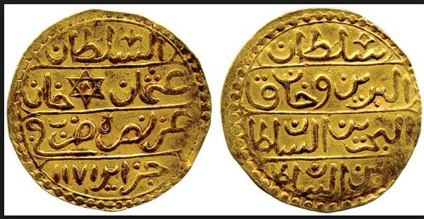 Ottoman Algeria coin 1700s 1171 AD